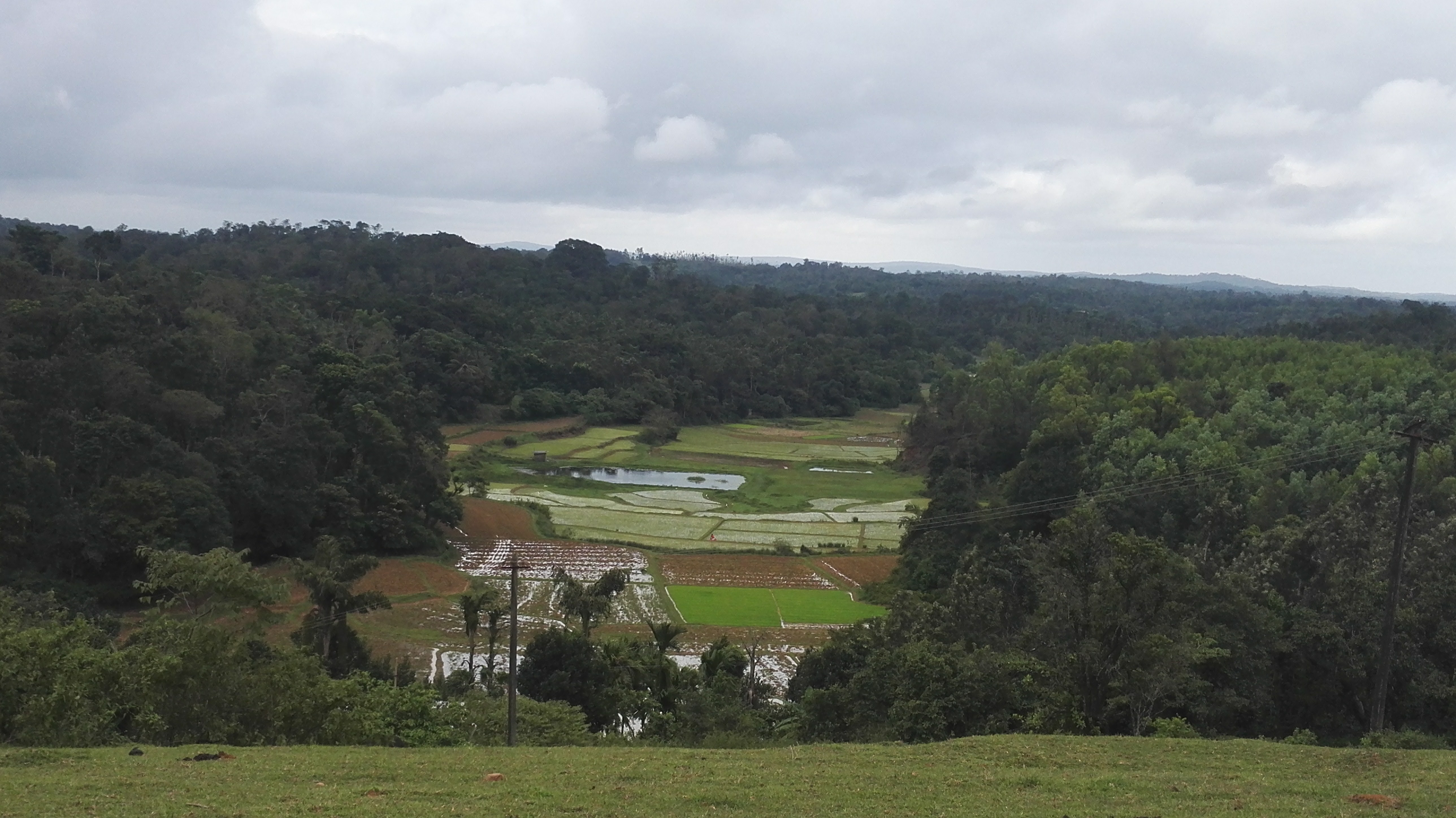 Photo taken at Sakleshpura